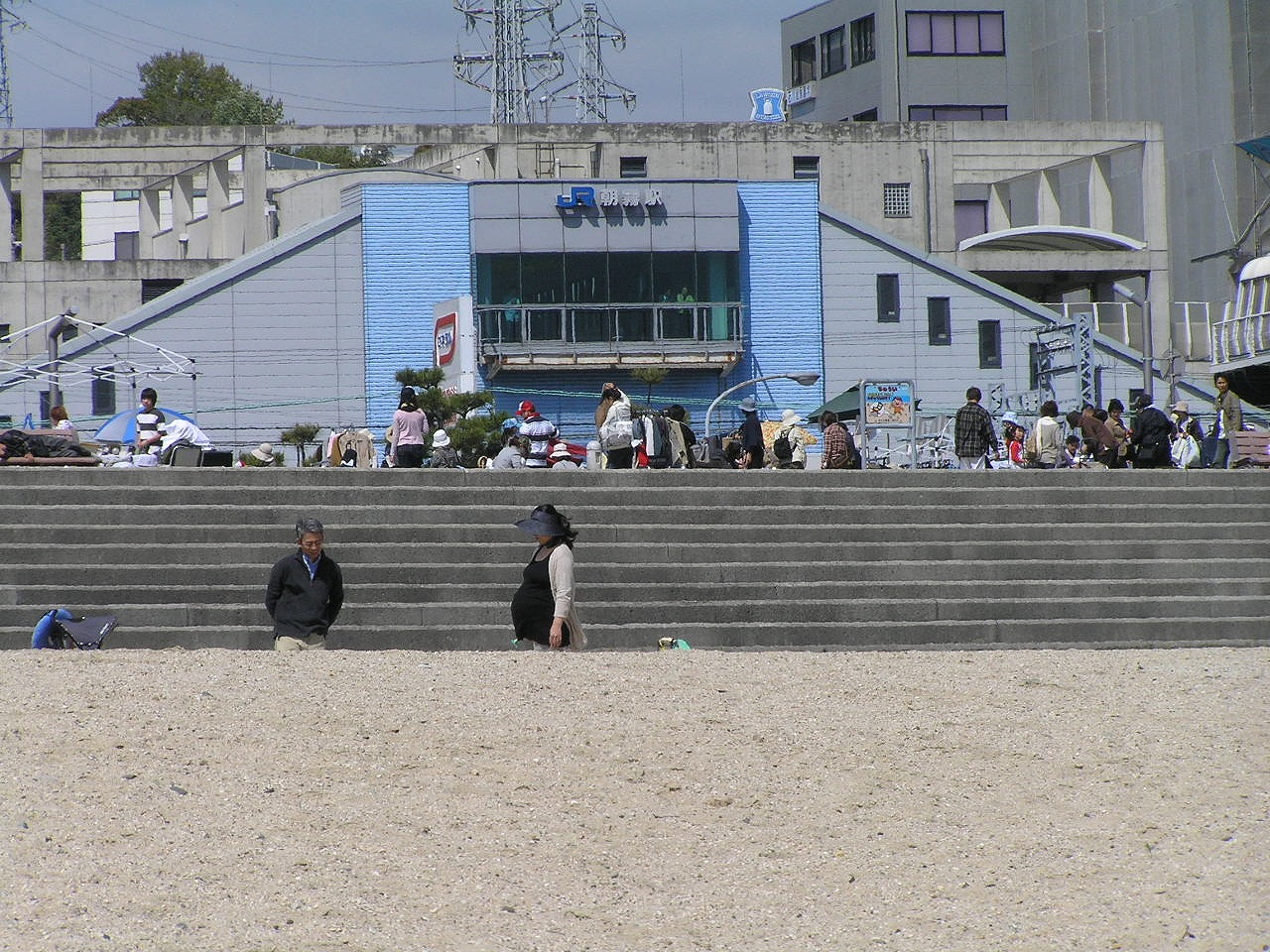 JR West Asagiri Station